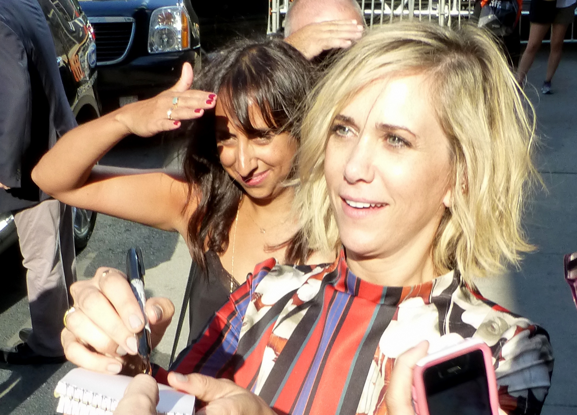 Kristen Wiig at the premiere of Welcome to Me, Toronto Film Festival 2014